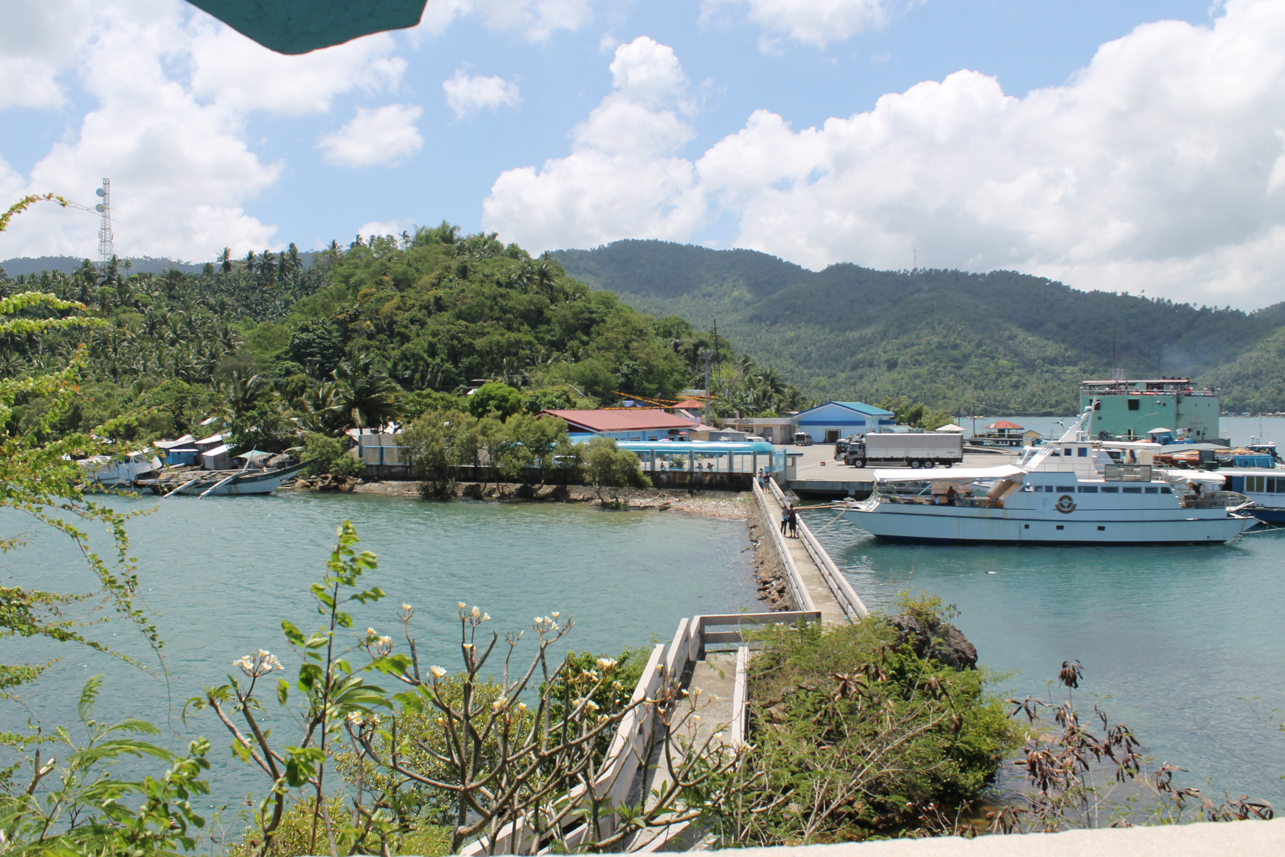 In a view deck of Mama Mary Statue take a shot.